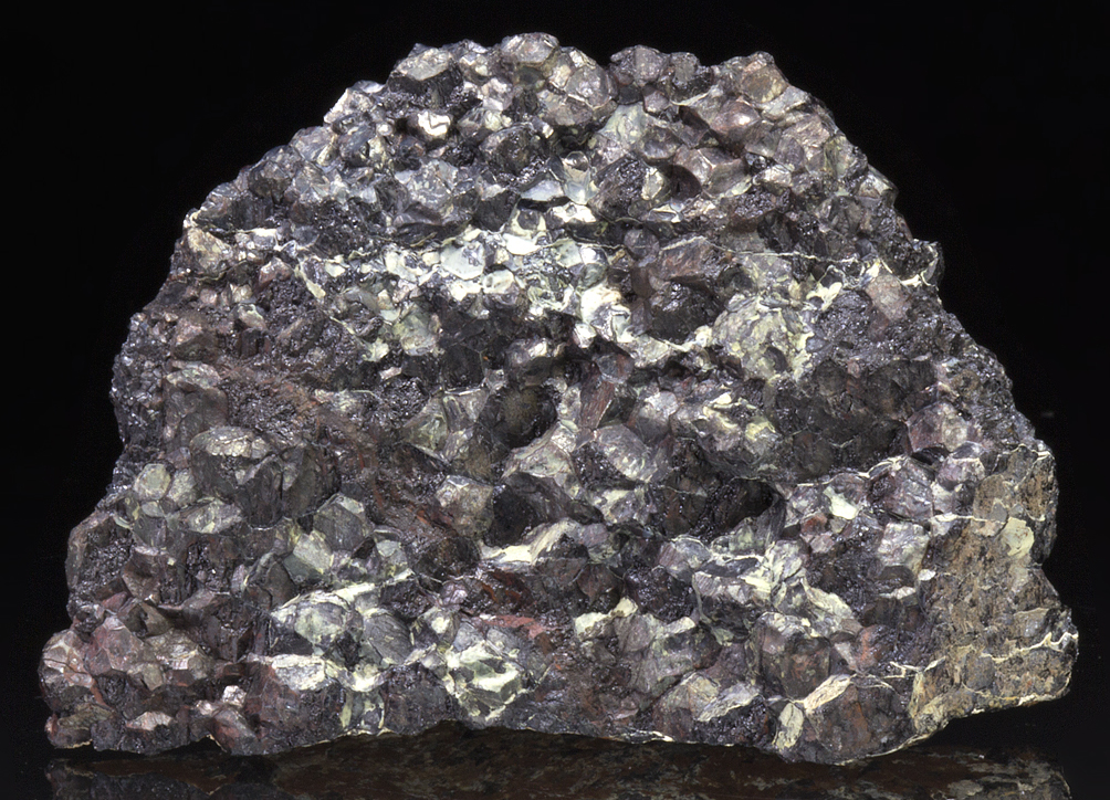 Chromite - Mtoroshanga, Makonde District, Mashonaland West, Zimbabwe Size: 7.0 x 4.5 x 3.0 cm Mostly covered by crude crystals and crystallized chromite.